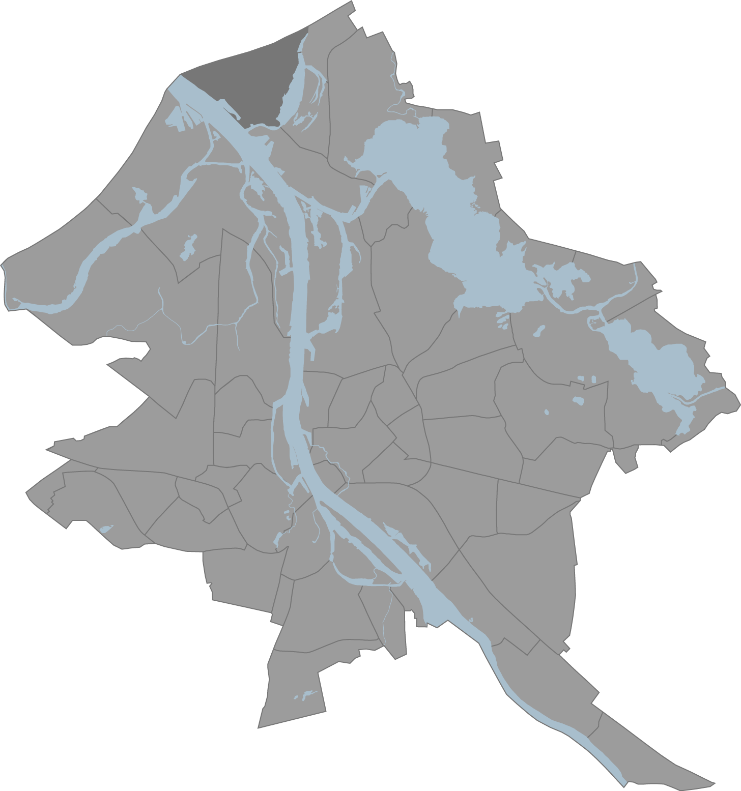 A map of Riga, Latvia with the eponymous commune highlighted